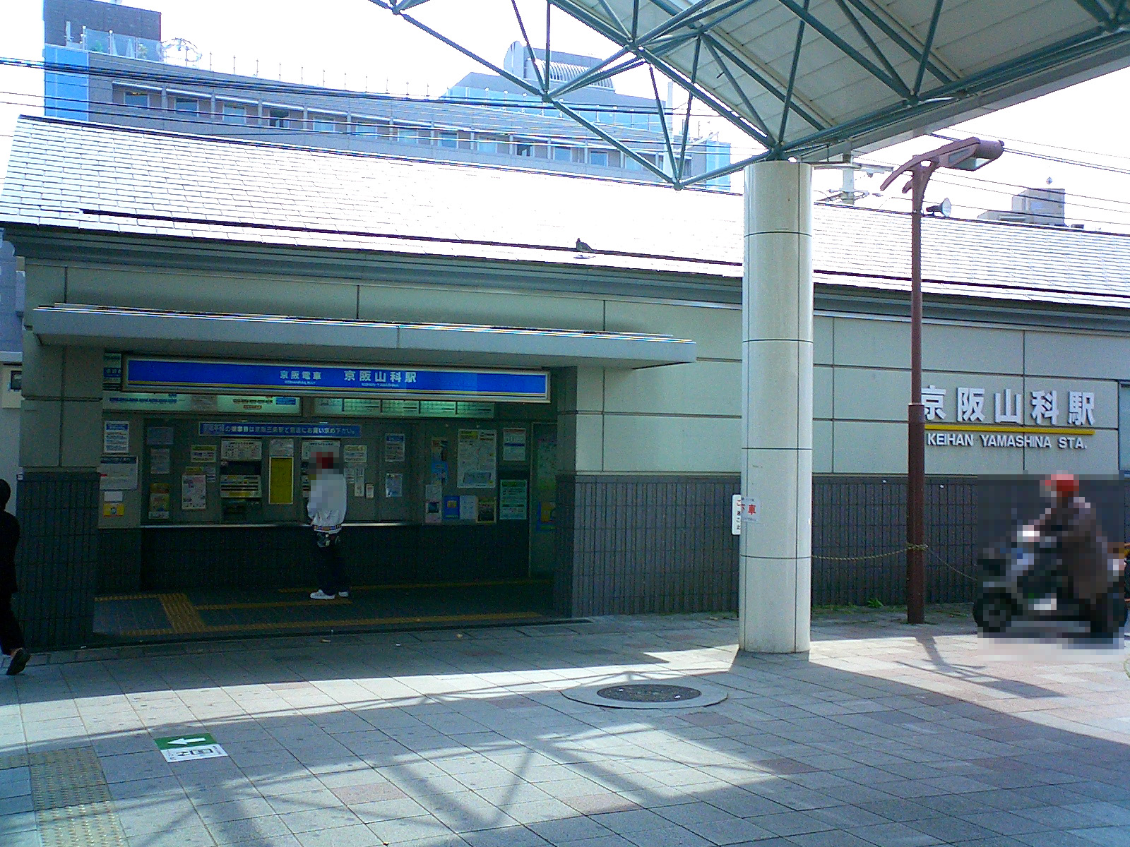 Keihan Eletric Railway Keishin Line Keihan-Yamashina Station Building North Gate